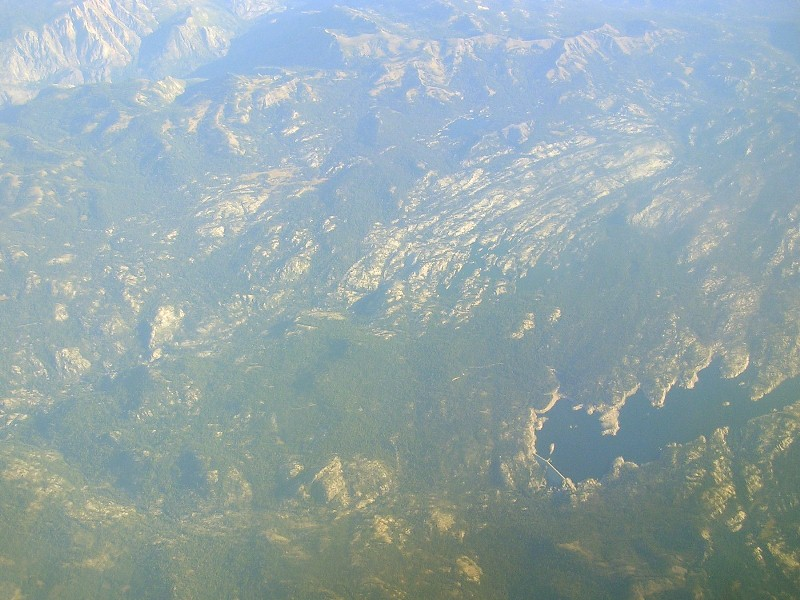 California Sierra Mountains from 30,000 ft. Spicer Meadow dam and reservoir in lower right corner.